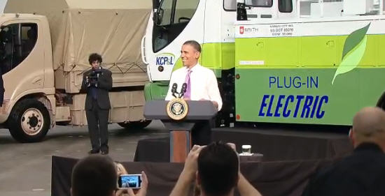 President Barack Obama at Smith Electric’s new factory in Kansas City, Missouri. With a $32 million grant under the American Recovery and Reinvestment Act coupled with $36 million in private capital, the electric vehicle company was building up to 500 all-electric trucks. Obama is standing in front of a truck for Kansas City Power & Light.